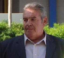 Actor Ángel de Andrés López, in l'Hospitalet de Llobregat, Barcelona (Spain), recording a sequence of the series Pelotas, directed by Jose Corbacho and Juan Cruz.